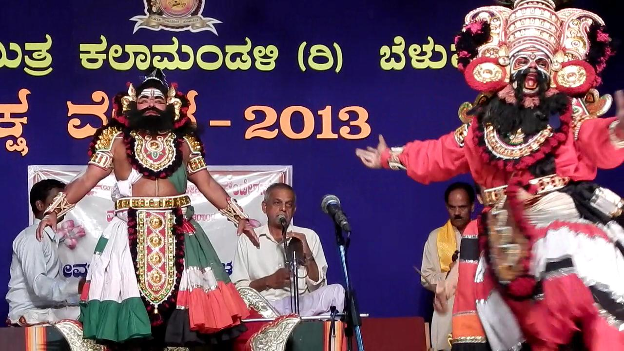 Veerabhadra Srishti (Thenkuthittu), showing the birth of Veerabhadra. We can see the lock of lord Shiva's hairs, Veerabhadra (Right) holding in his mouth. Edaneeru Harinarayana Bhat as Veerabhadra and Vasantha Gouda Kayarthadka as Shiva.